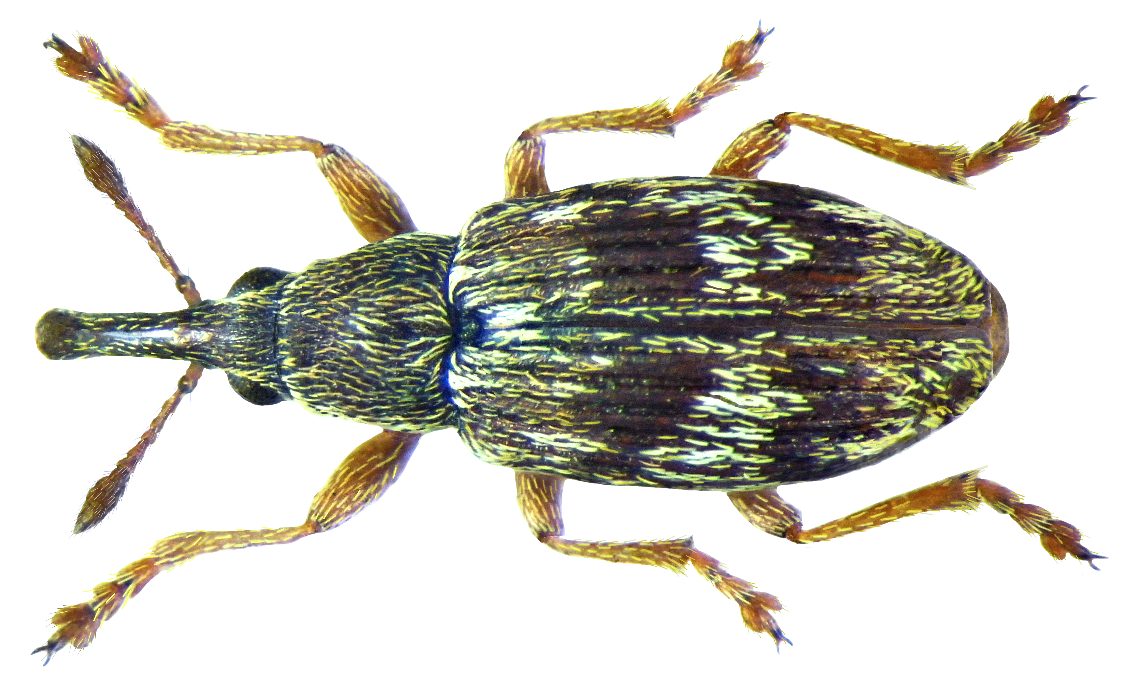 Family: Apionidae Size: 2,2 mm (1.9-2,3 mm) Origin: Siberia, Western Asia, Central Asia, Europe Ecology: development in the stems of Urtica dioica Location: England, Kent, Deal leg.det. J.J.Walker, 1939; Coll. Oxford University Museum of Natural History Photo: U.Schmidt, 2013